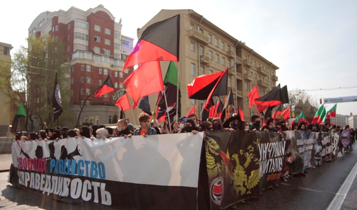 anarchists mayday 2010 in moscow